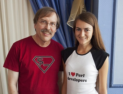 Larry Wall and Olga Kowalska on YAPC 2013 in Kyiv, Ukraine